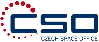 Logo of the Czech Space Office